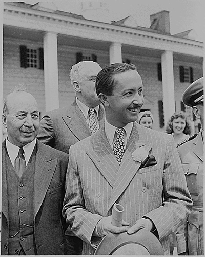 Prince Abdul Ilah of Iraq at Mount Vernon